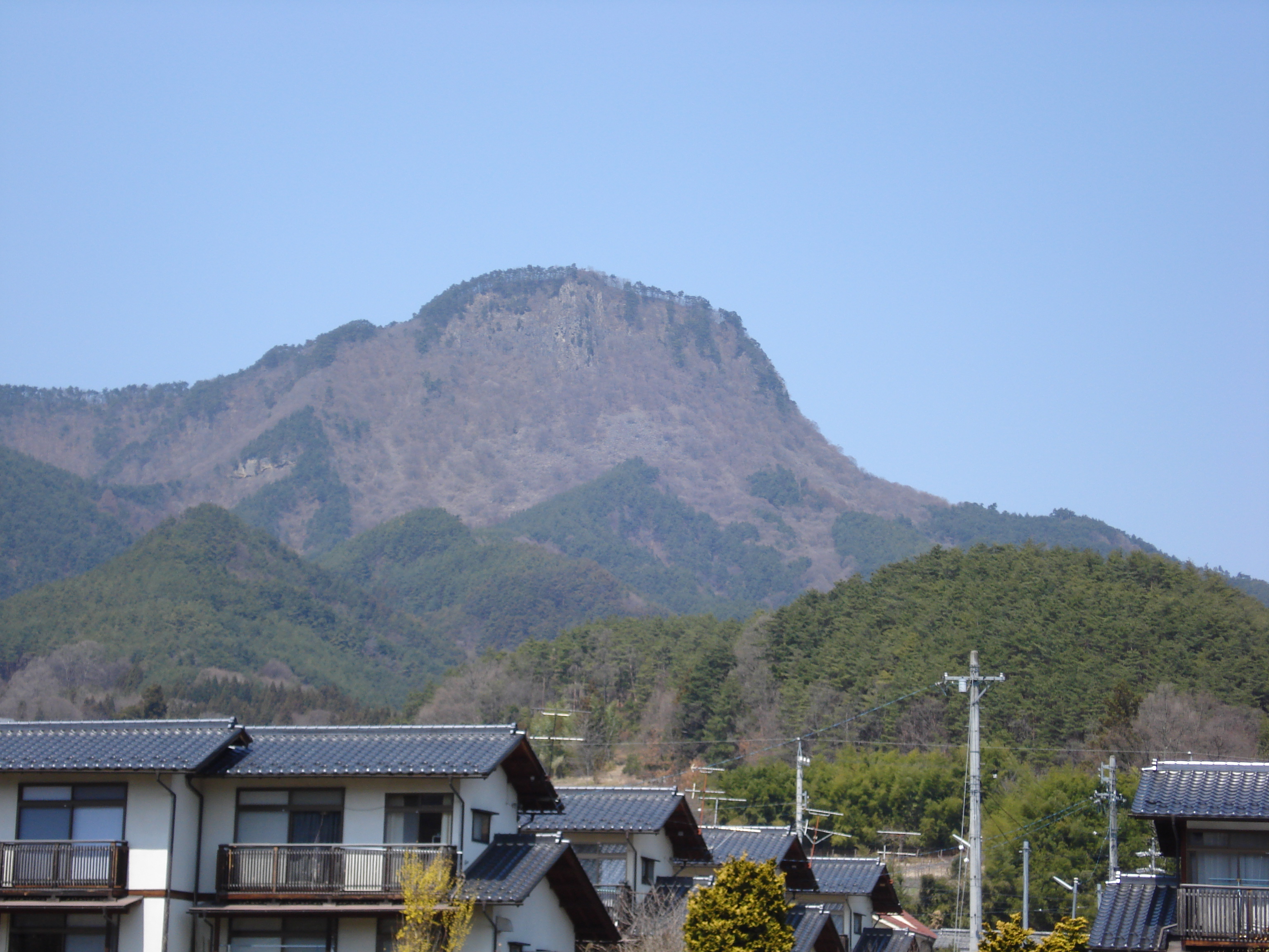 Mount Komayumi (Komayumi-dake) seen from SSE, in Aoki, Nagano Prefecture, Japan.